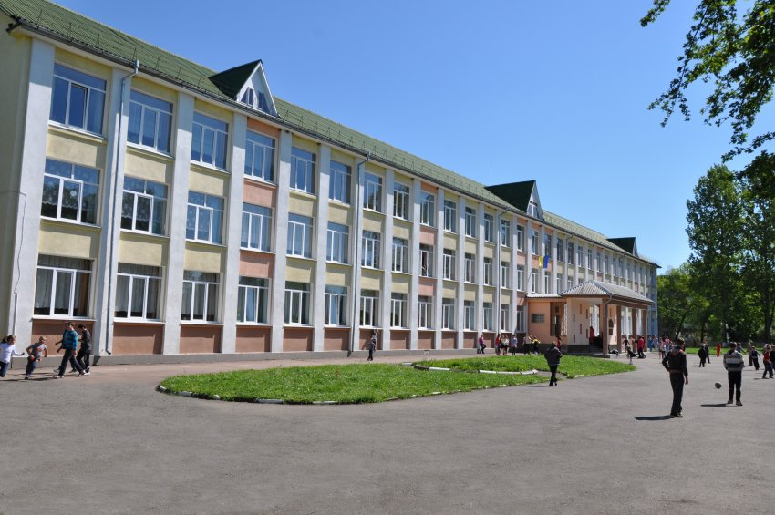 School of general education №5